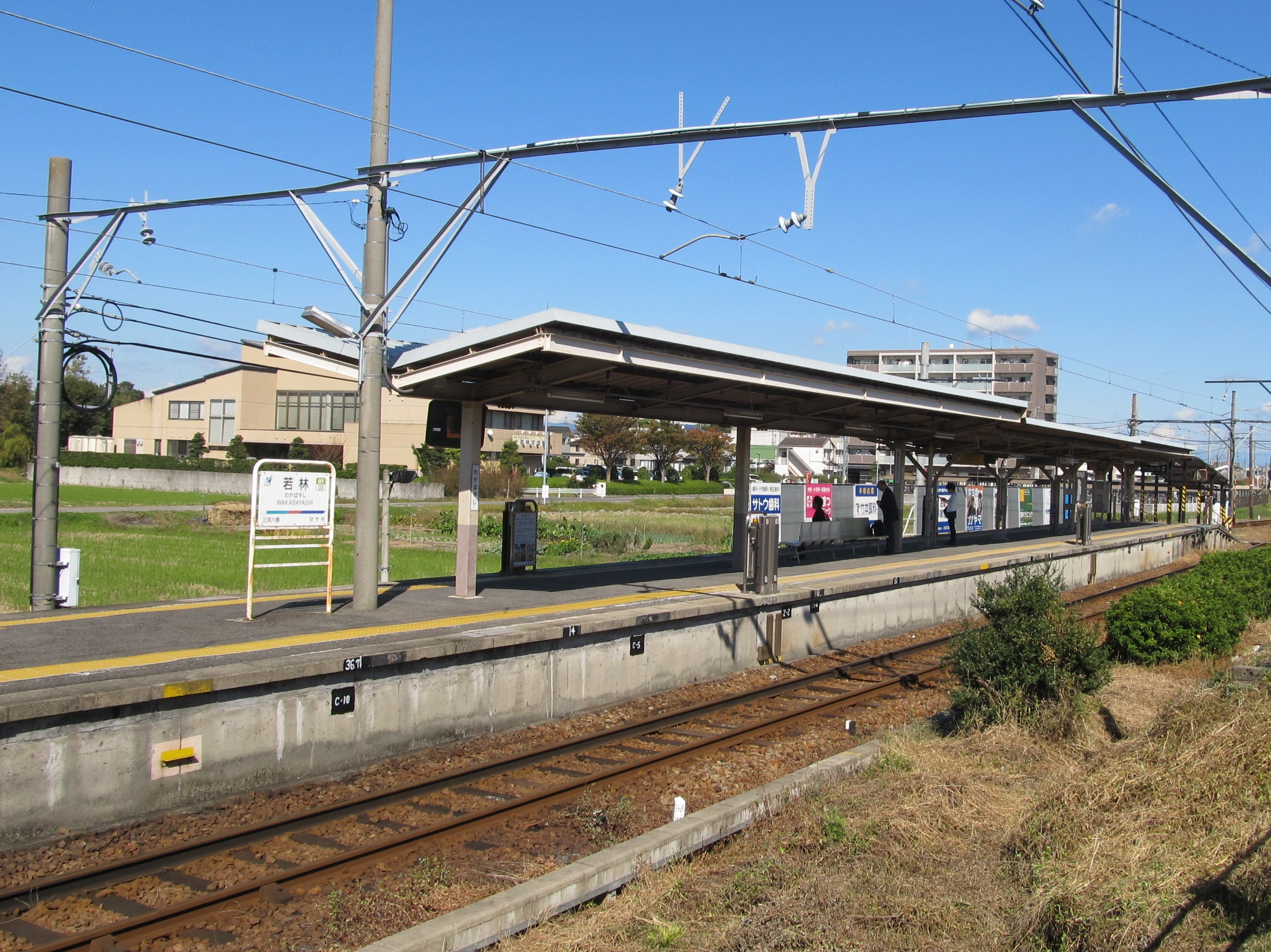 Nagoya Railroad Mikawa Line Wakabayashi Station Platform